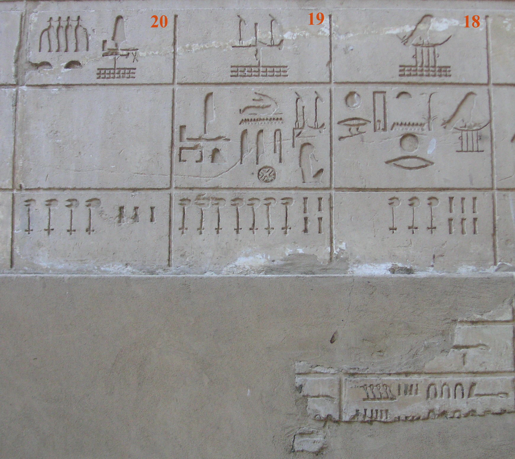 Nome 18 to 20 of Upper Egypt (list of Sesostris I.)